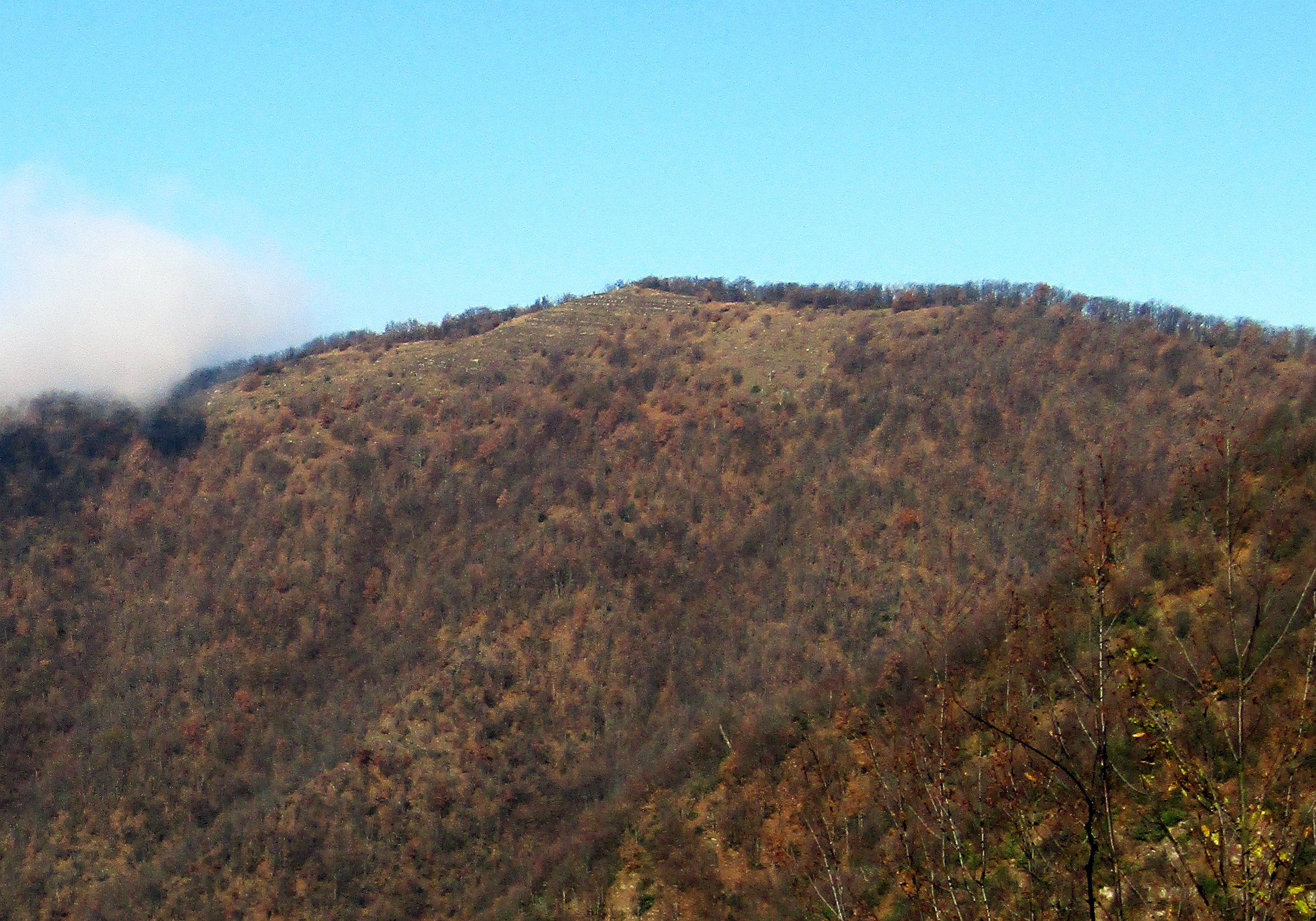 Bric delle Camere (Ligurian Apennine, Italy)